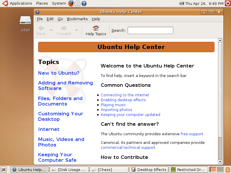 Ubuntu Feisty Fawn showing help center; some of the applications that characterize Ubuntu are shown in GNOME panel